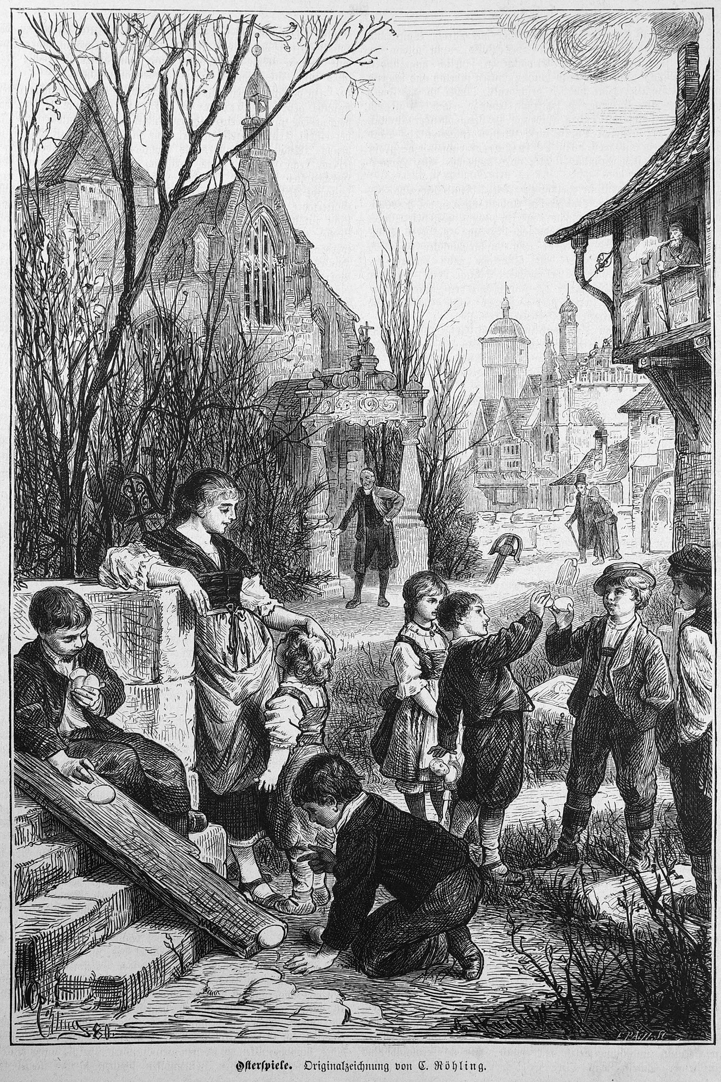 caption: "Osterspiele. Originalzeichnung von C. Röhling."